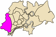 position of Binh Tan district in an outline of the core area of HCMC (Ho Chi Minh City, Vietnam) - ISO code VN-F-HC. Keywords: map, outline, city, Ho Chi Minh City, HCMC, HCM, Binh Tan district, quan Binh Tan.